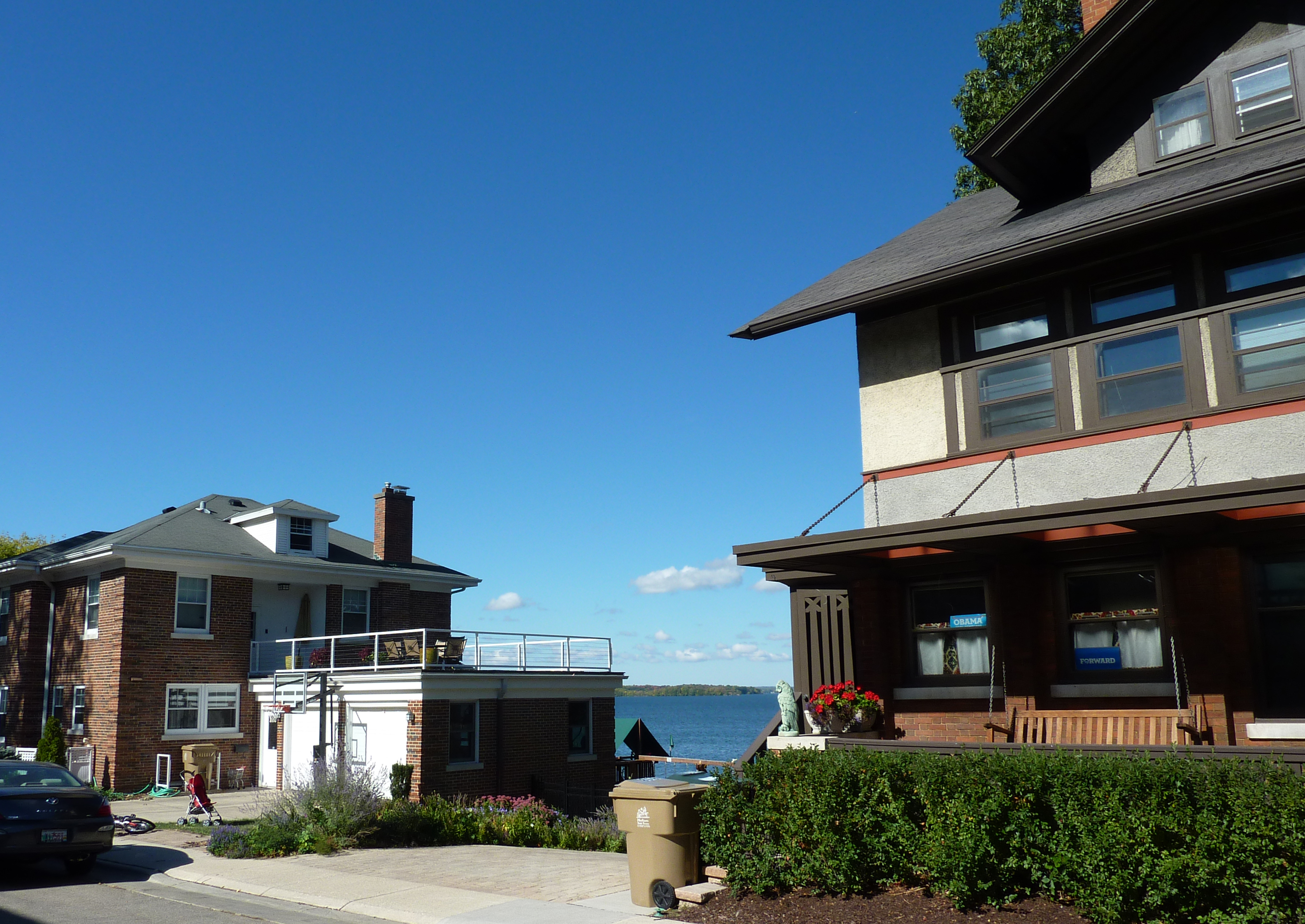 Houses on Prospect Place in the Fourth Lake Ridge Historic District, Madison, Wisconsin